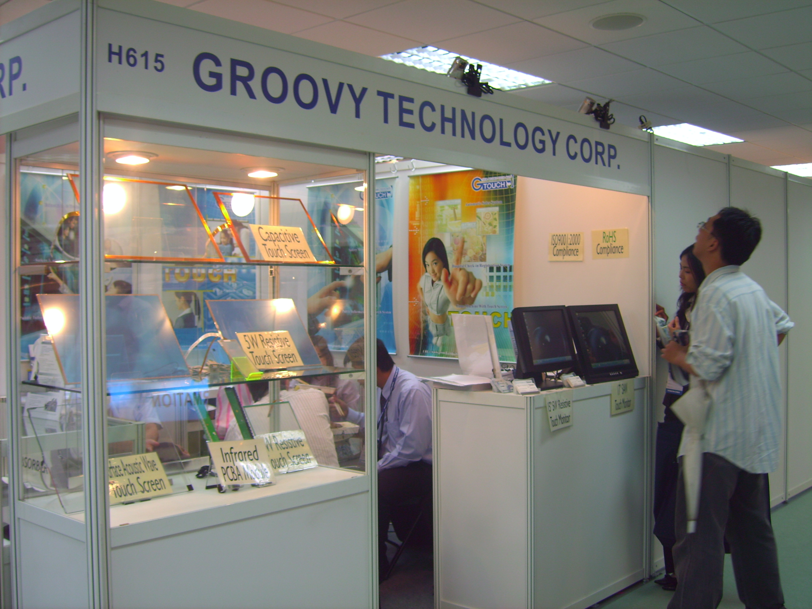 2007 COMPUTEX Taipei: H615 Booth - Groovy Technology Corporation.